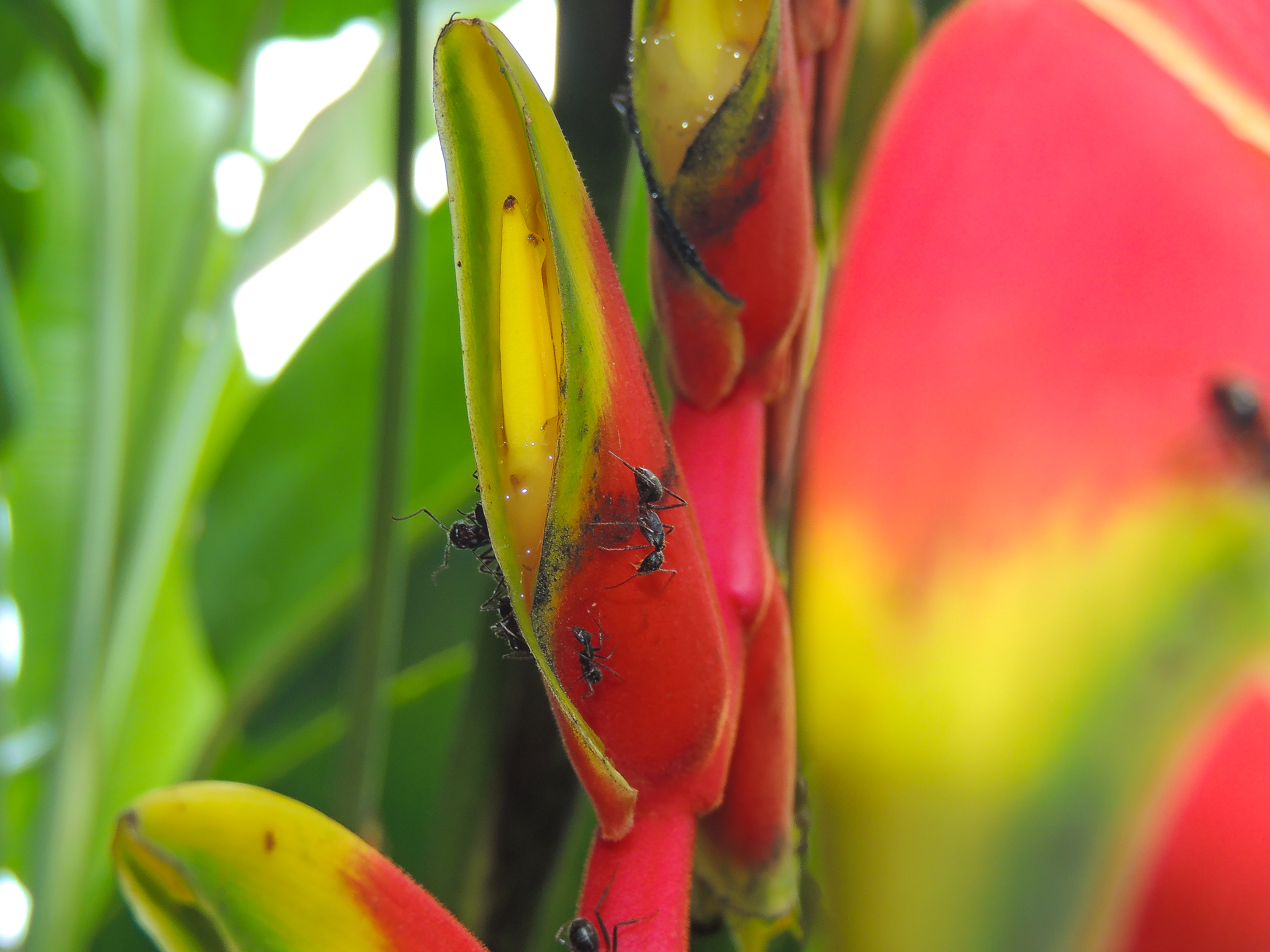 Heliconia rostrata Inflorescence